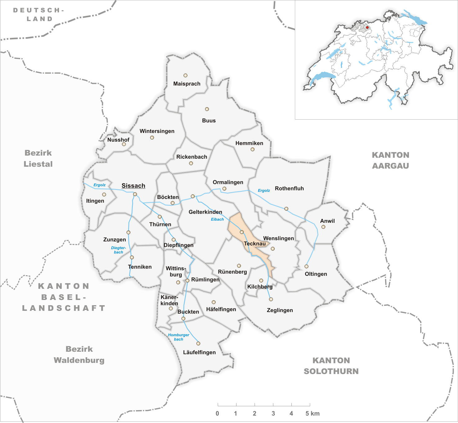 Municipality Tecknau